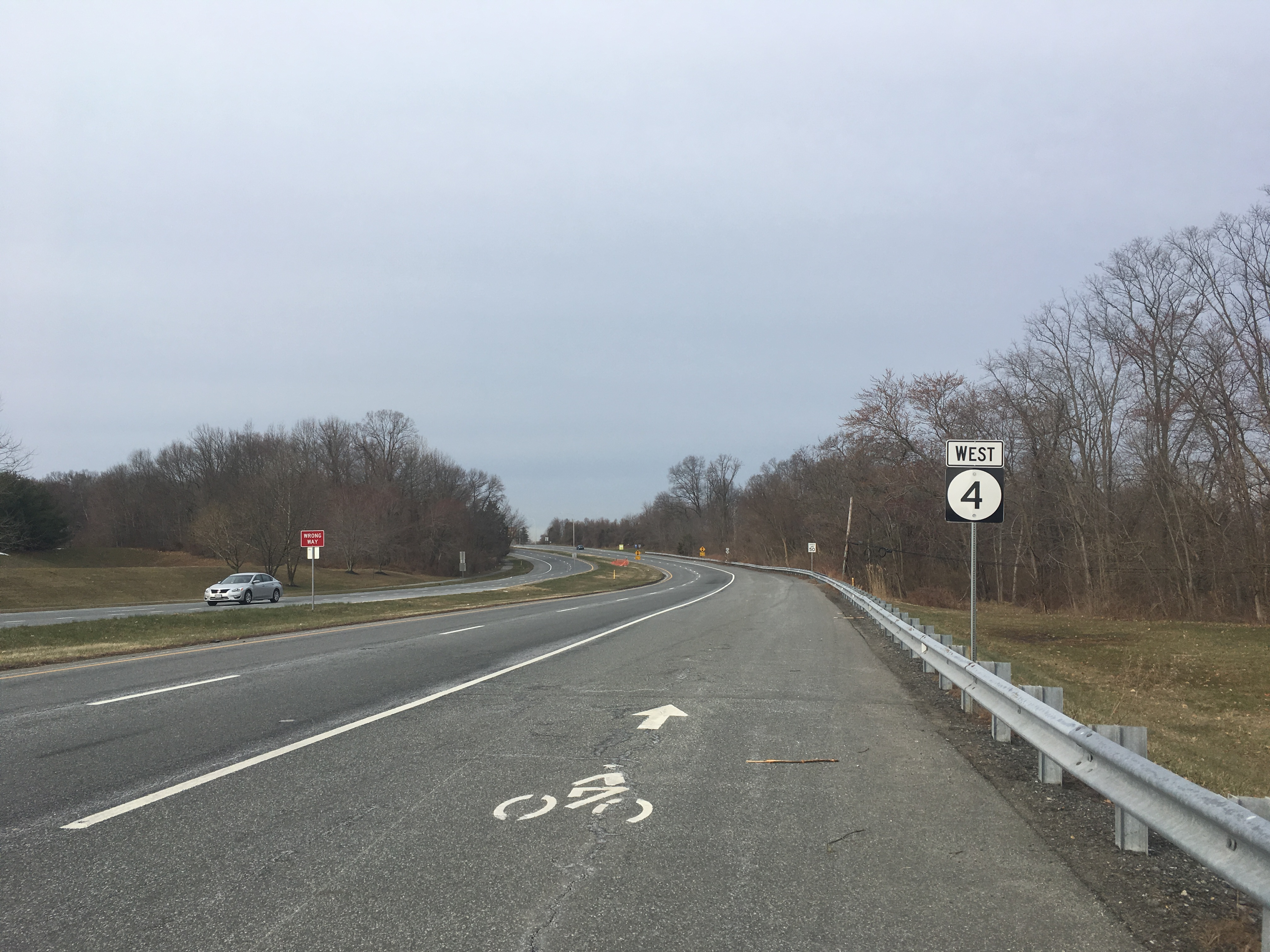 Westbound Delaware Route 4 (Ogletown Stanton Road) past the intersection with Old Churchmans Road near Christiana, Delaware